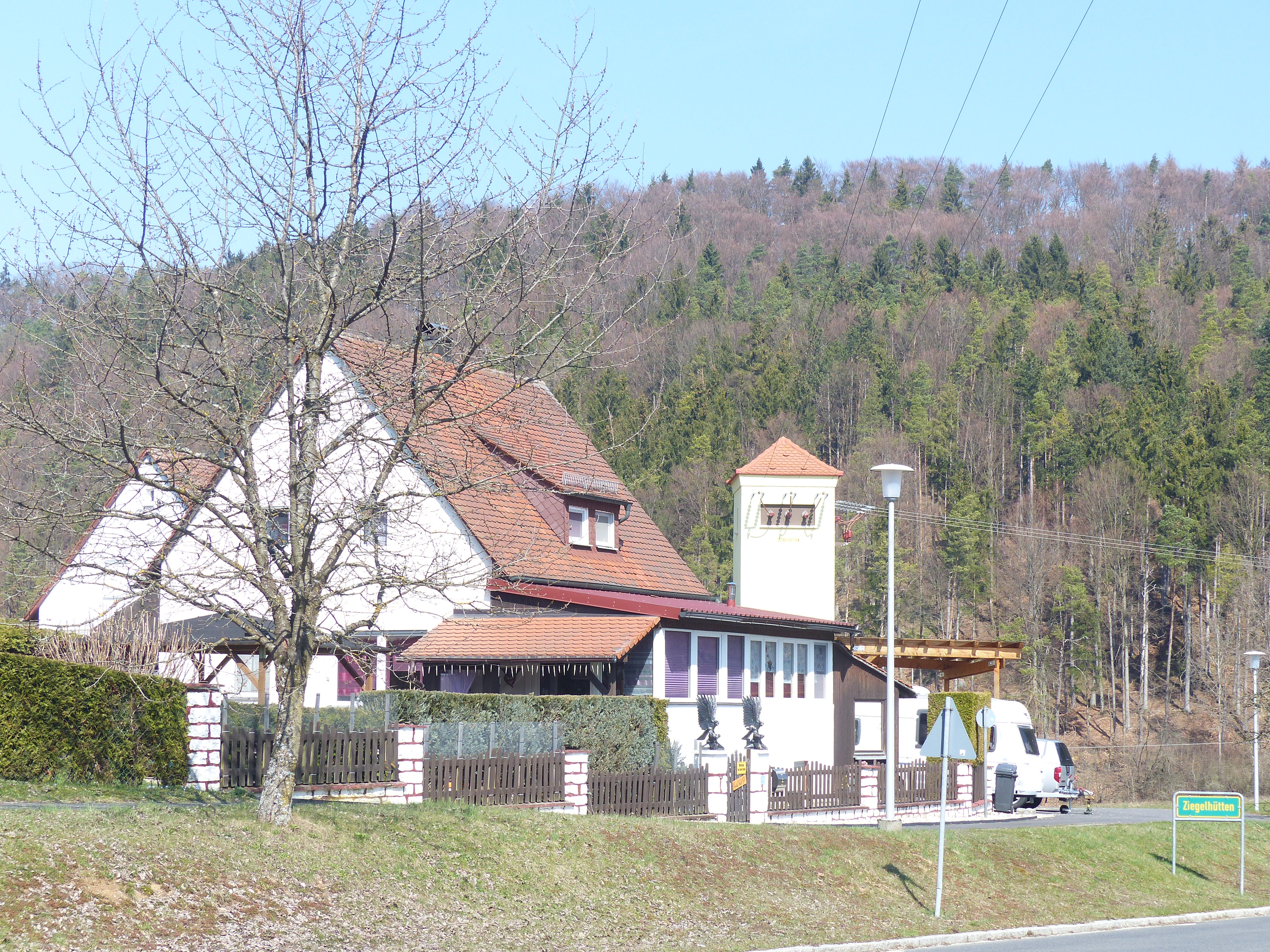 The northeastern part of the village of Ziegelhütten, a district of the municipality of Etzelwang